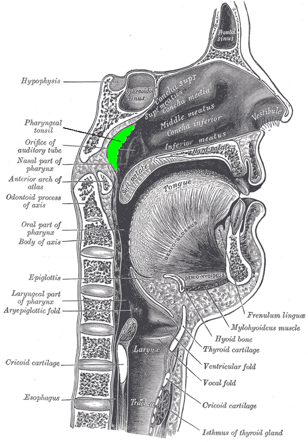 Sagittal section of nose mouth, pharynx, and larynx.